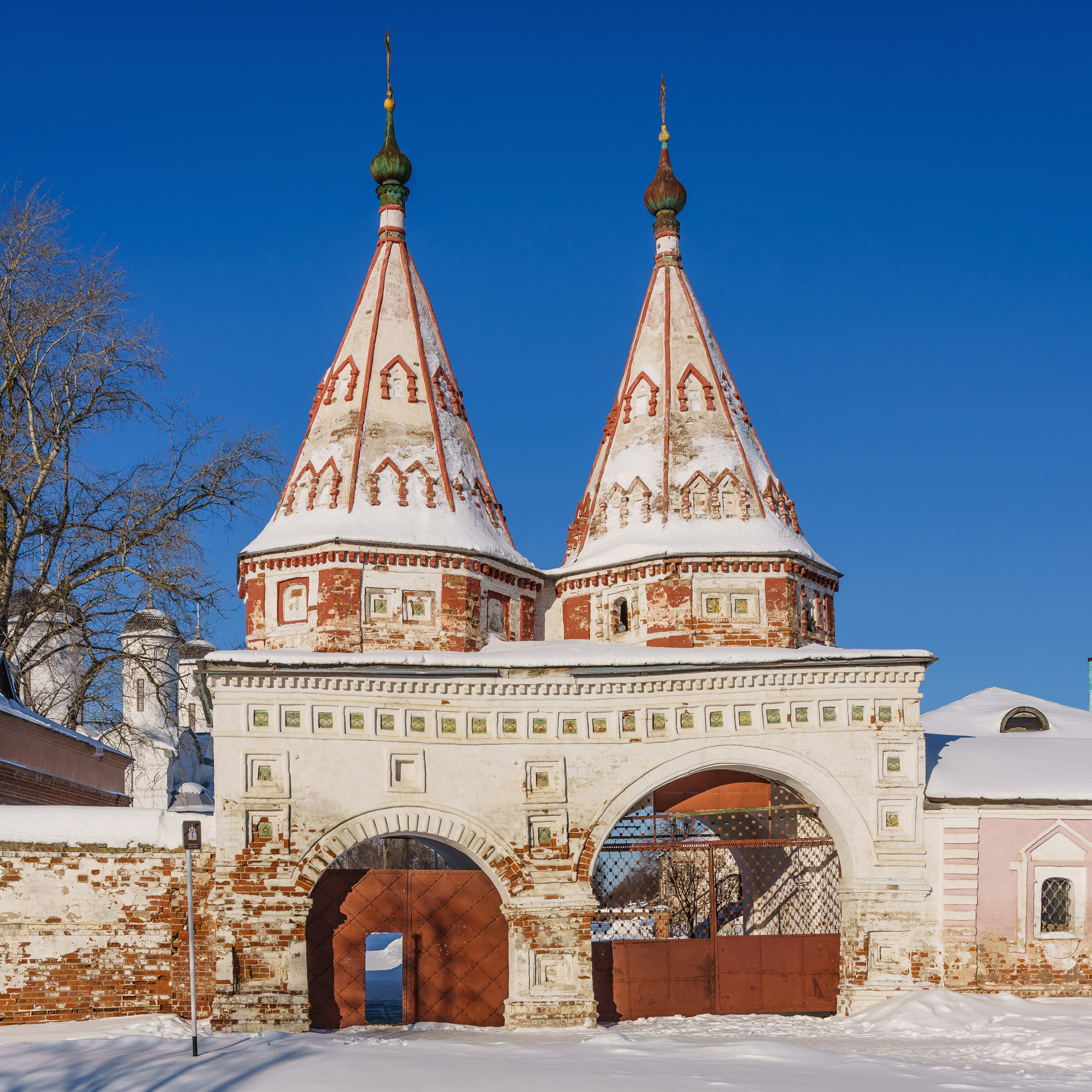 Gates of Rizopolozhensky Monastery in Suzdal, Russia